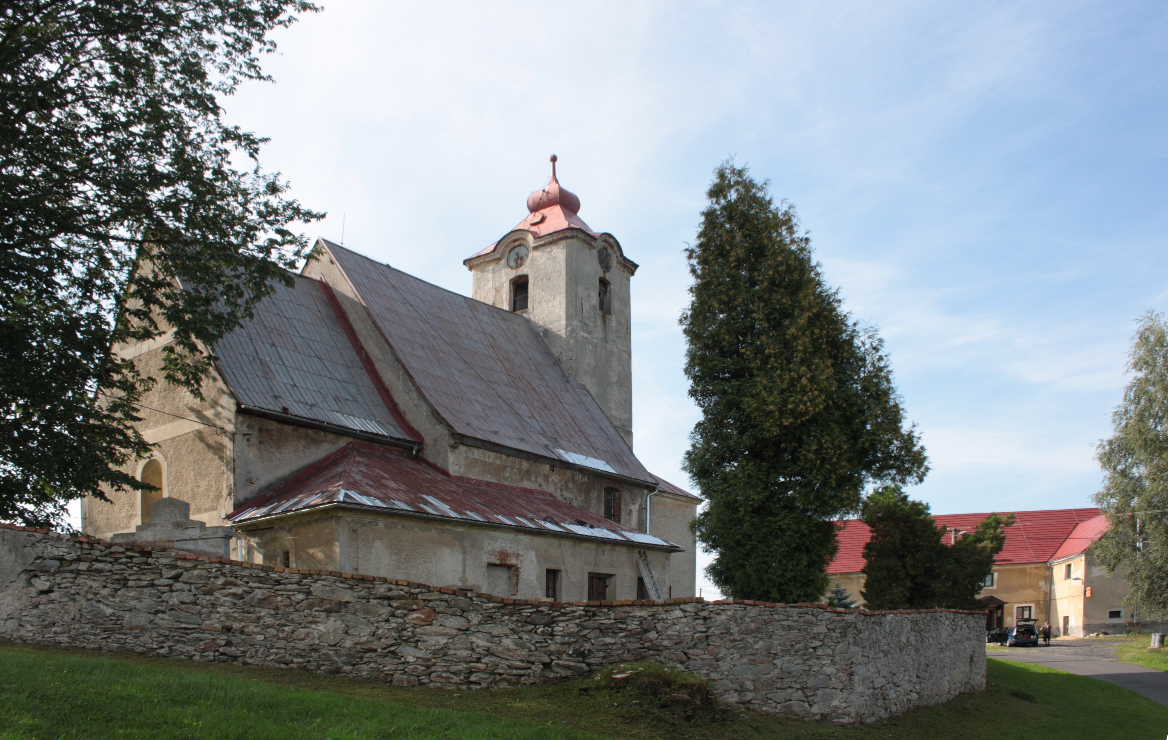 This photograph was taken with a DSLR from WMCZ's Camera grant. Kostel Neposkvrněného Početí Panny Marie v Horní Řasnici (pohled od severu).